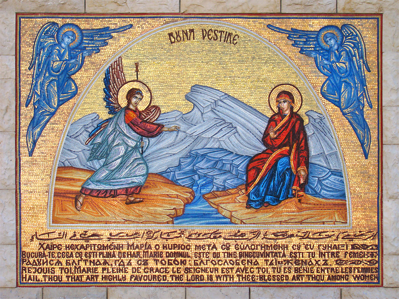 Greek Orthodox Church of the Annunciation, Nazareth, Israel.